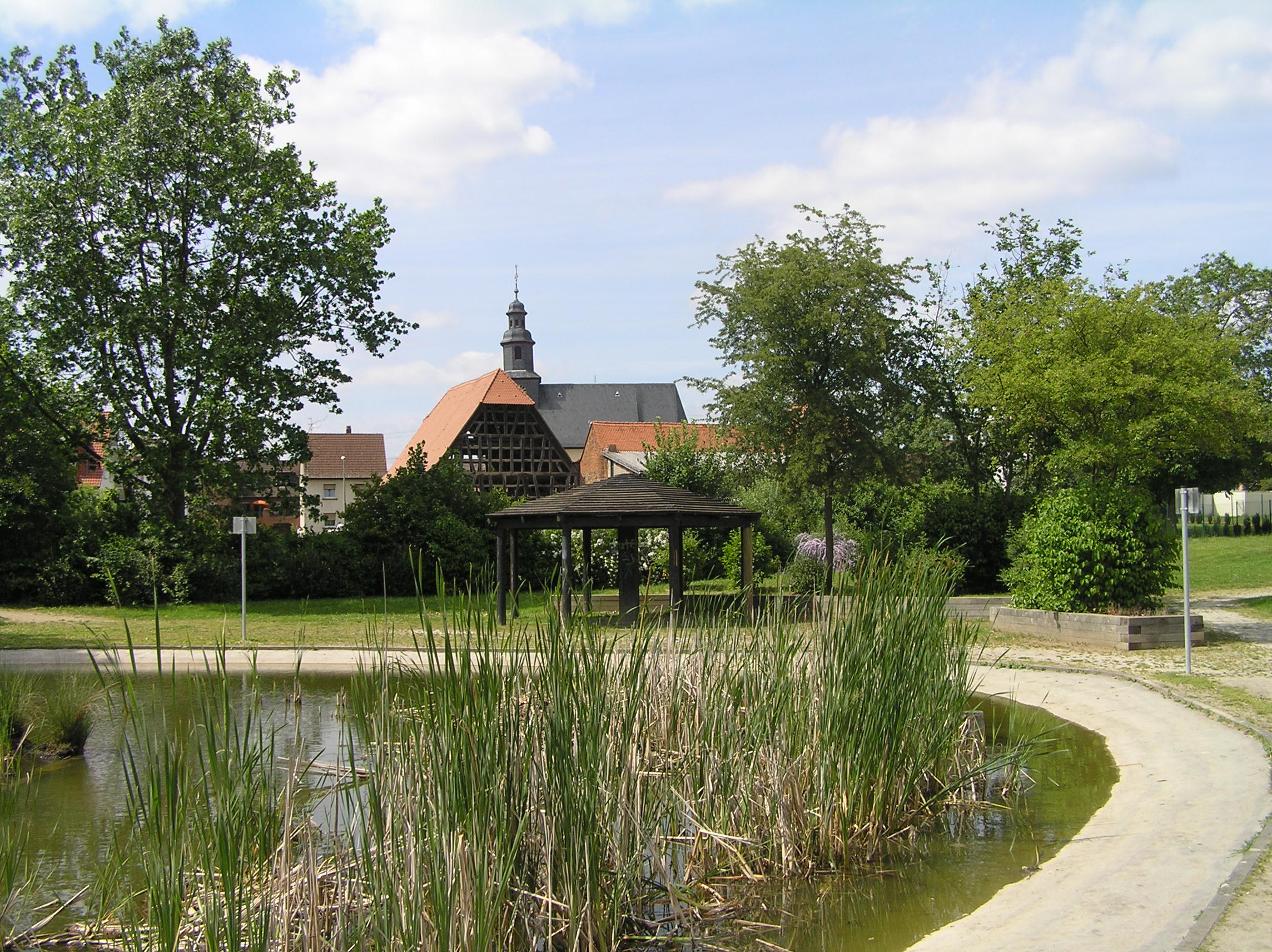 Park in Kalbach, Frankfurt am Main, Hesse, Germany